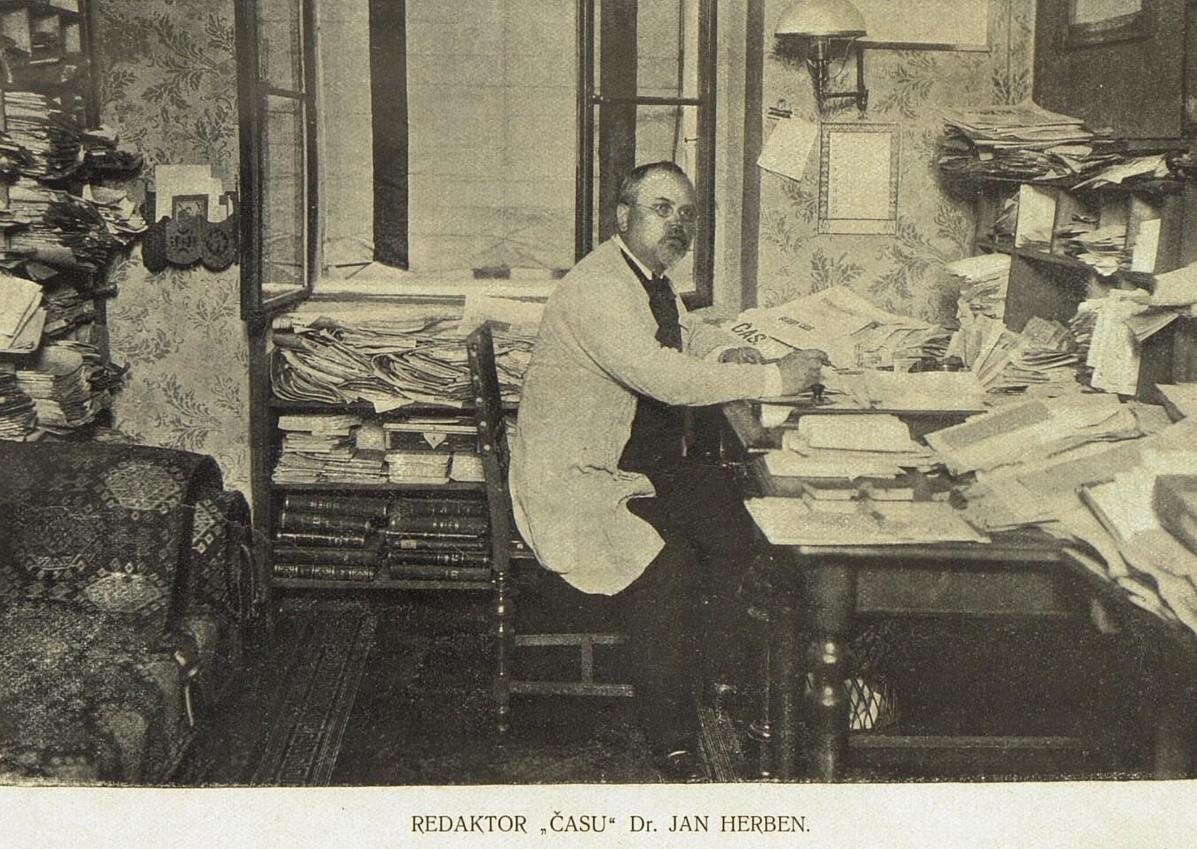 Jan Herben, Czech writer, 1907